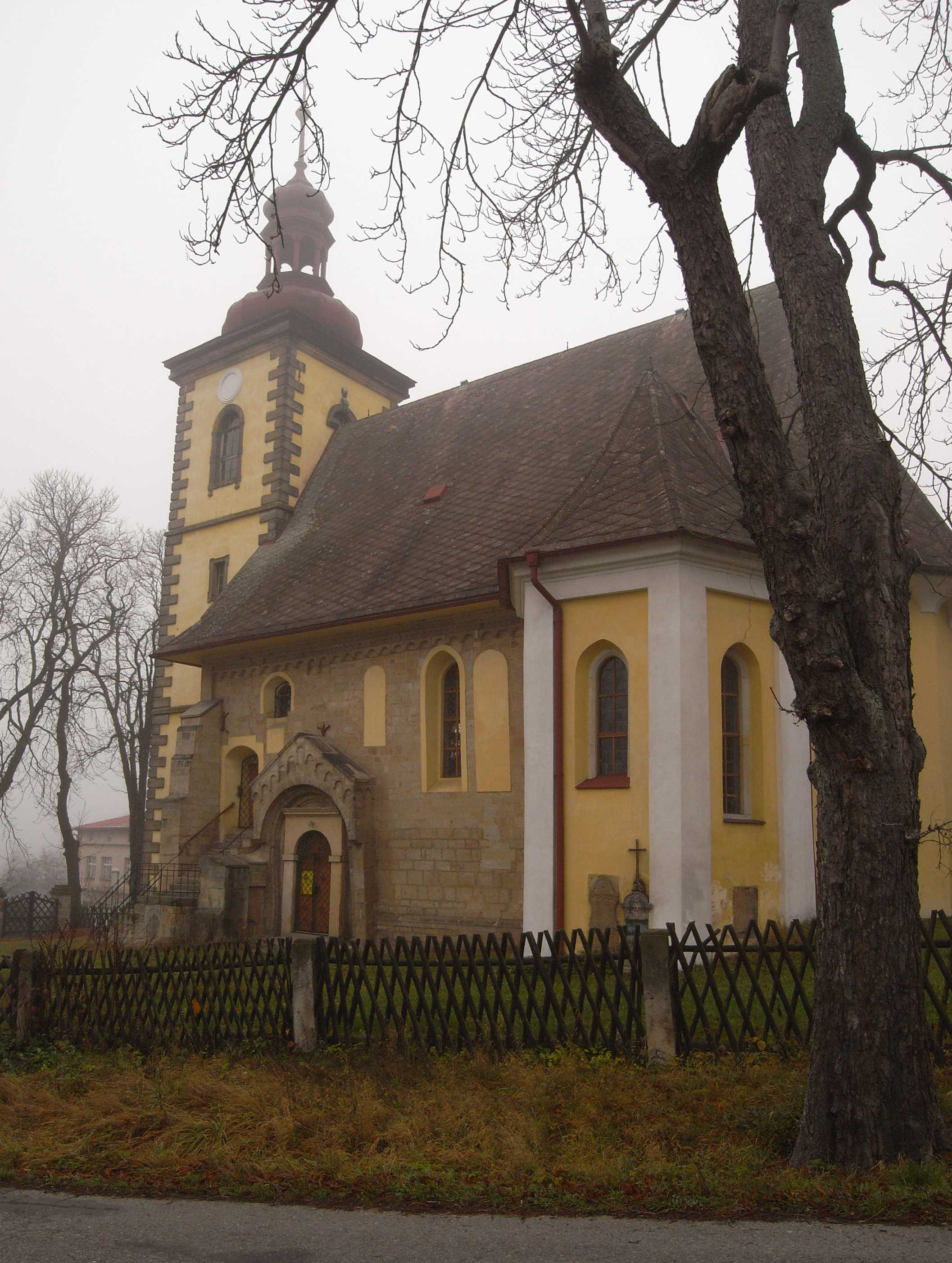 church St. Bartholomew of Lanžov (Czech Republic)